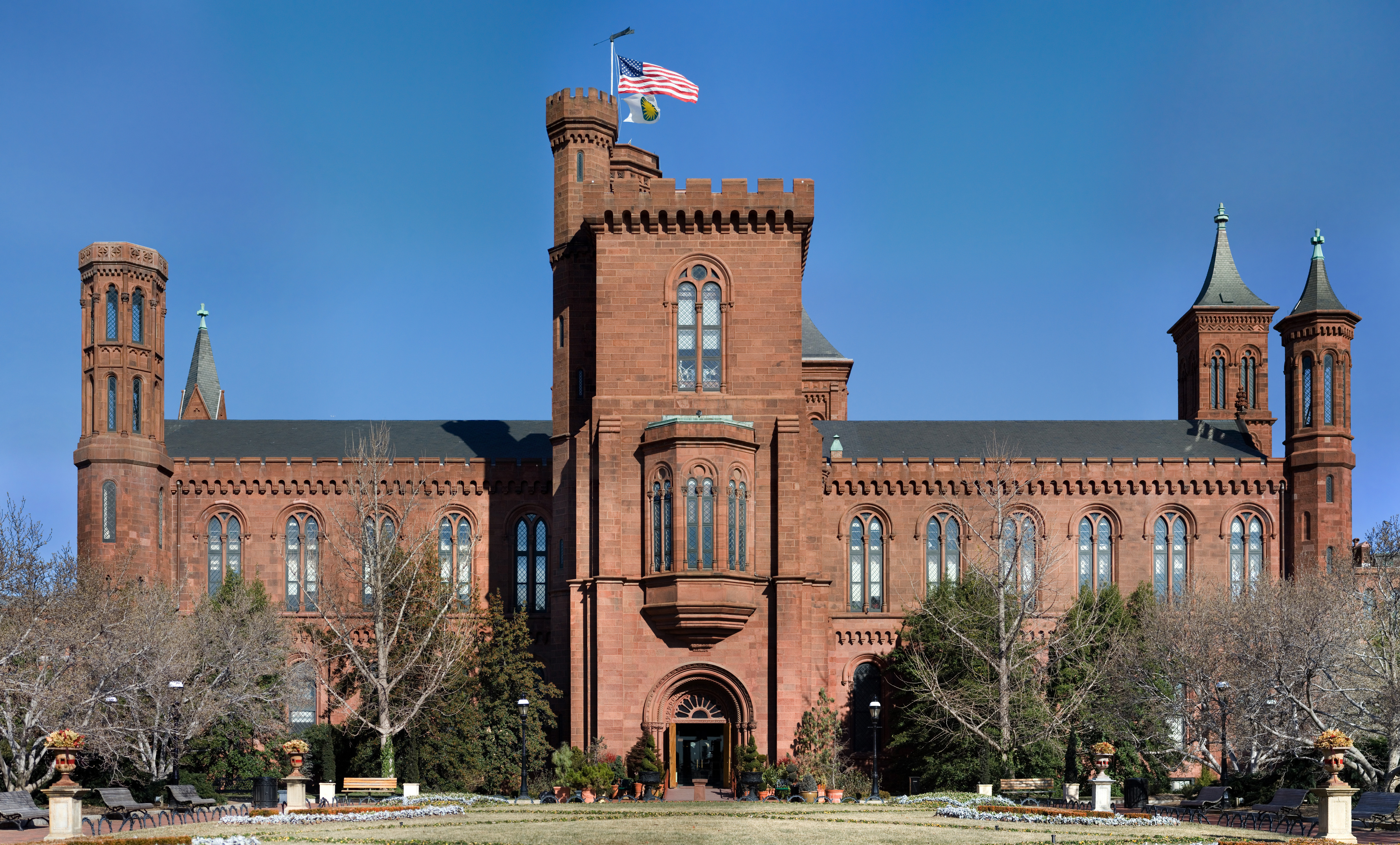 The Smithsonian Building in Washington D.C., United States. Edit of Wikipedia:Image:Smithsonian_Building.jpg to reduce luminance noise in the sky.